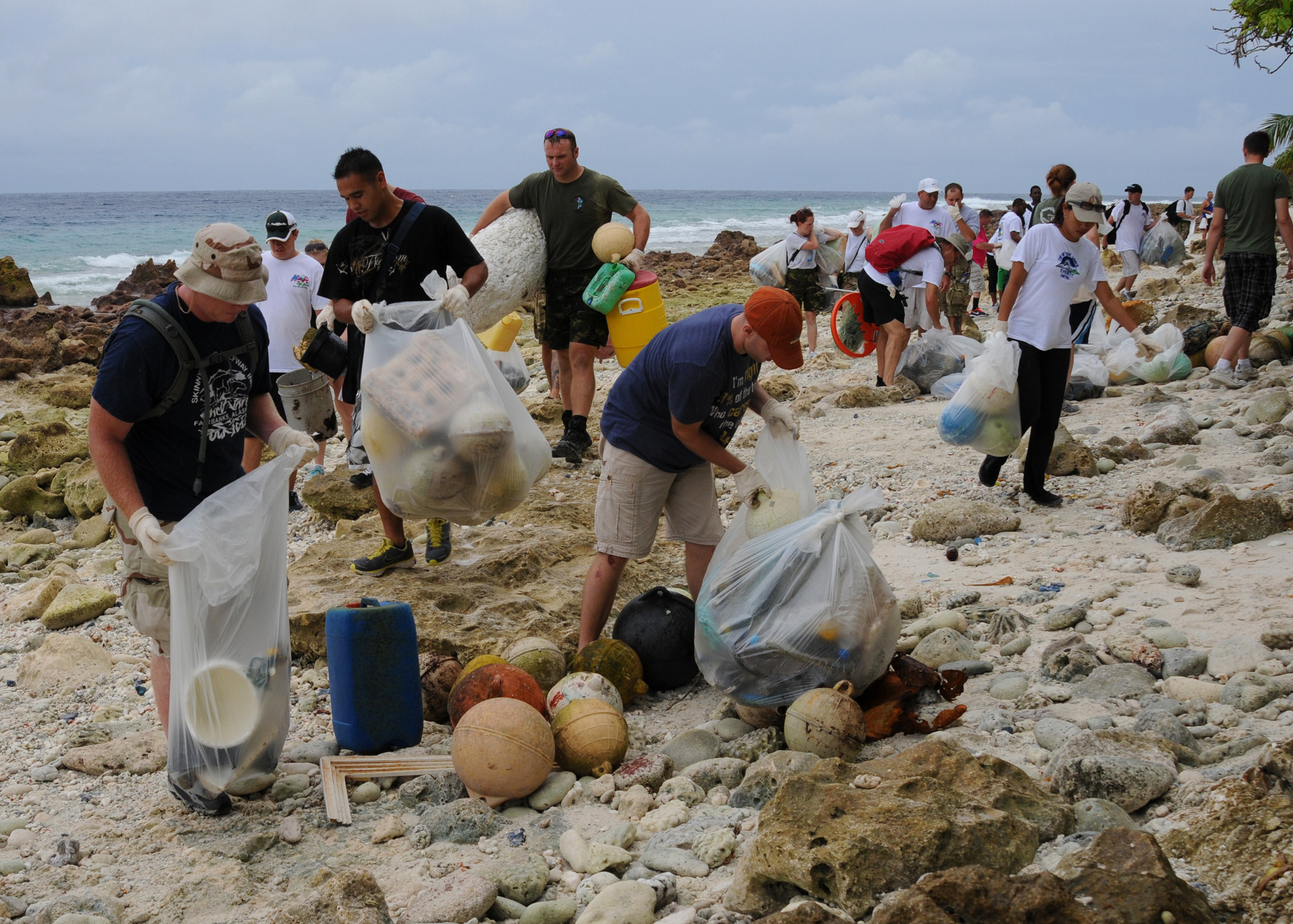 DIEGO GARCIA (Sept. 14, 2012) Service members and residents of Diego Garcia, British Indian Ocean Territory, clean up trash at Barton Point. More than 130 personnel attended the beach cleanup, assisting in the collection of 4,100 pounds of trash. (U.S. Navy photo by Mass Communication Specialist Seaman Eric A. Pastor/Released) 120914-N-XY761-109 Join the conversation navylive.dodlive.mil